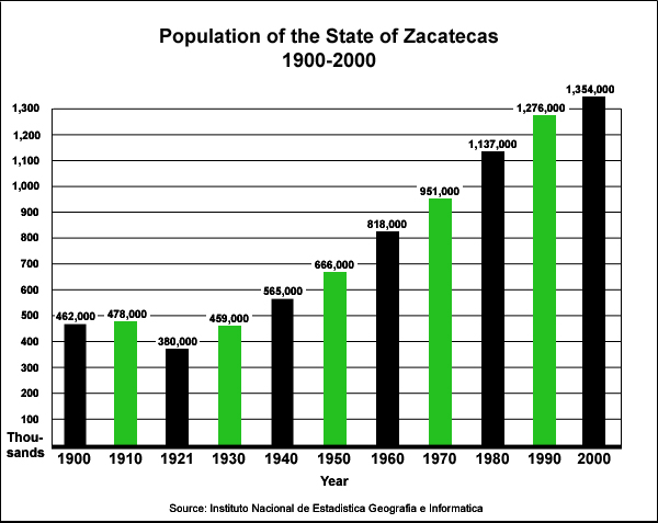 Population of the State of Zacatecas: 1900-2000.